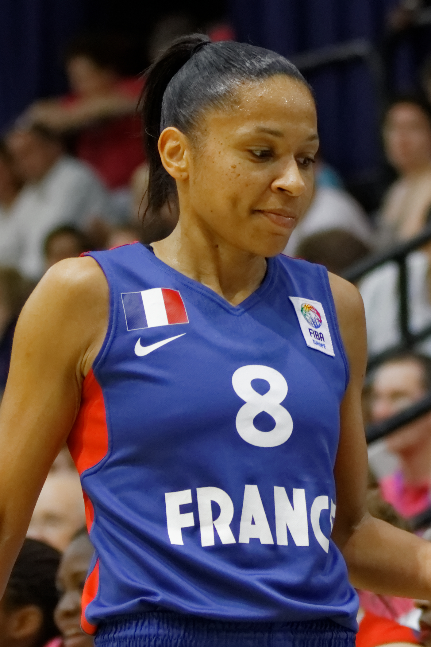 EuroEssonne, France - Canada, 7 June 2013.